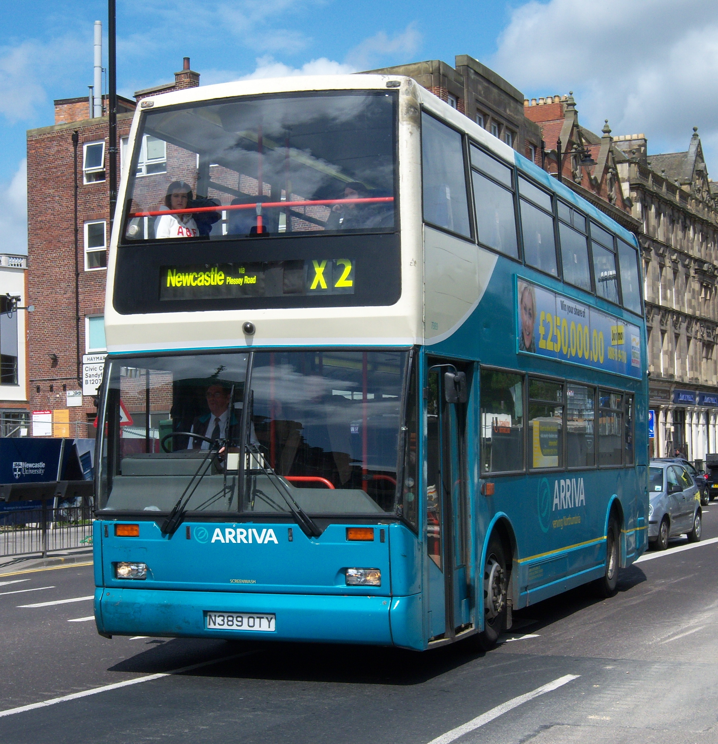 Arriva North East 7389 (N389 OTY), a Scania N113/East Lancs Cityzen bus, in Newcastle upon Tyne, on route X5.